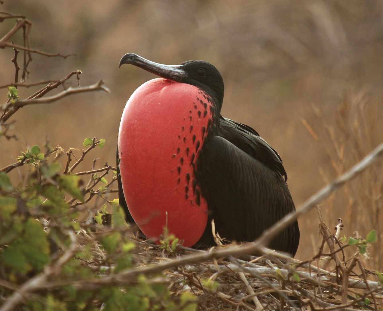 A male Magnificent Frigatebird in the Galapagos Archipelligo, Ecuador.